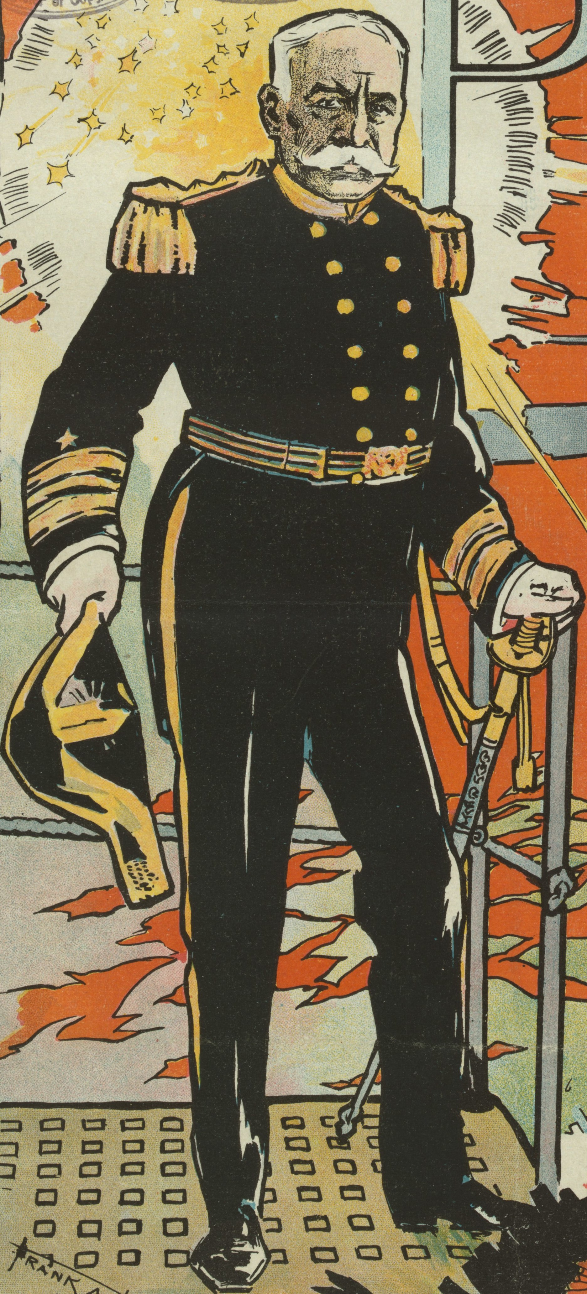 Title: Admiral George Dewey standing on the bridge of a ship] / Frank A. Nankivell '89 Abstract/medium: 1 print : chromolithograph.